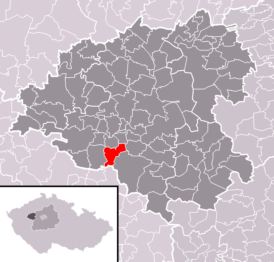 Location of Krakovec municipality within Rakovník District and (identical) administrative area of Rakovník as a Municipality with Extended Competence.